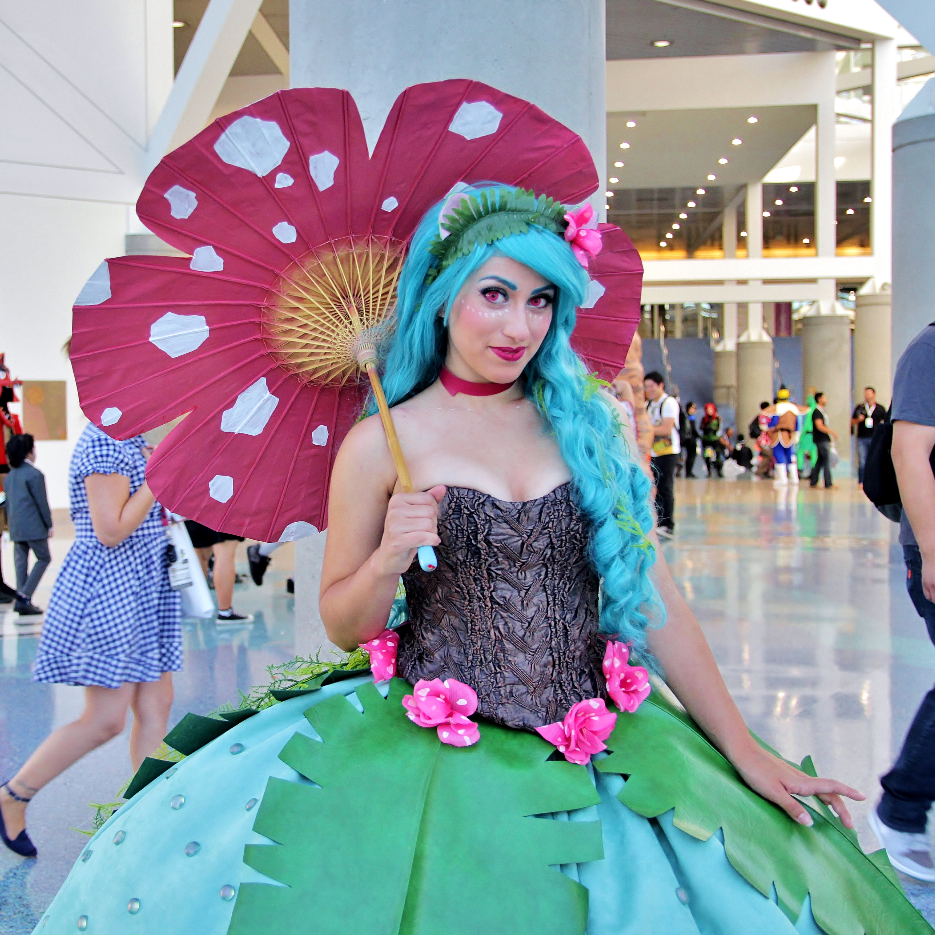 Elizabeth Rage cosplaying as Venusaur (from Pokémon) at Comikaze Expo 2015.